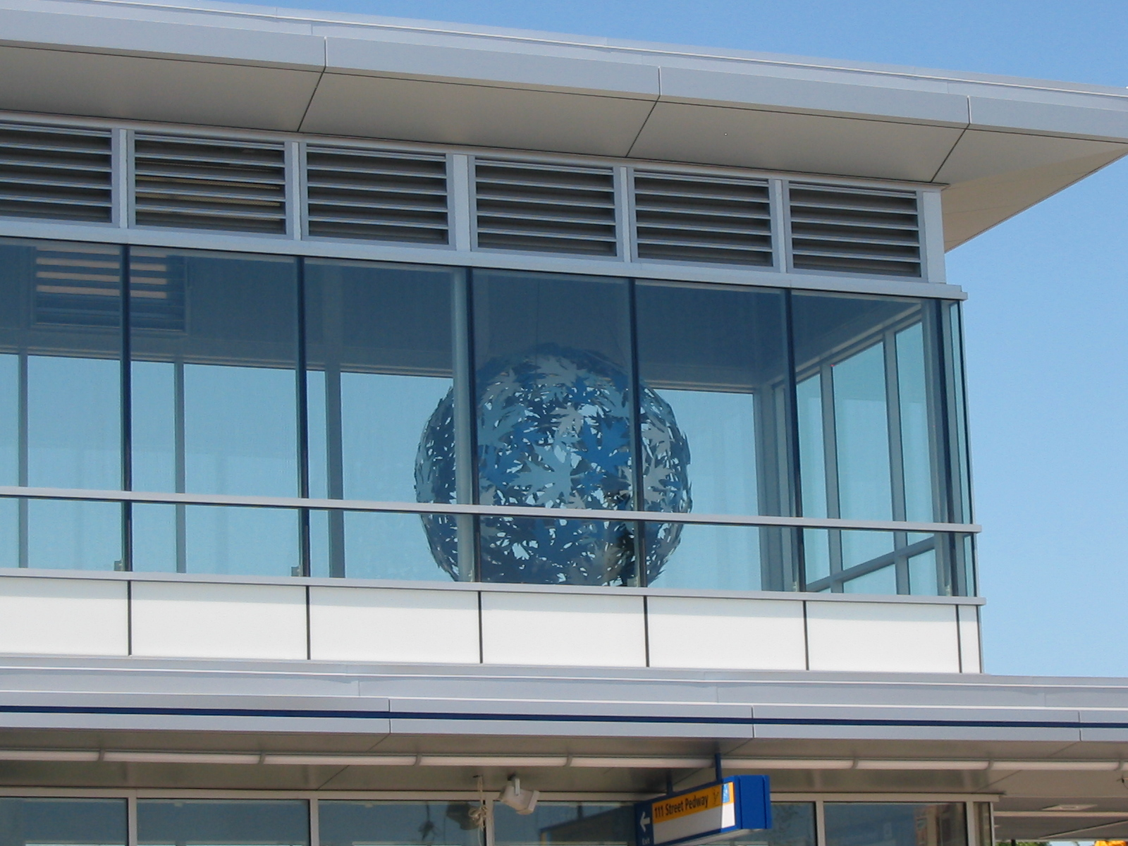 Century Park Station in Edmonton. "Continuum" on of three suspended wire spheres